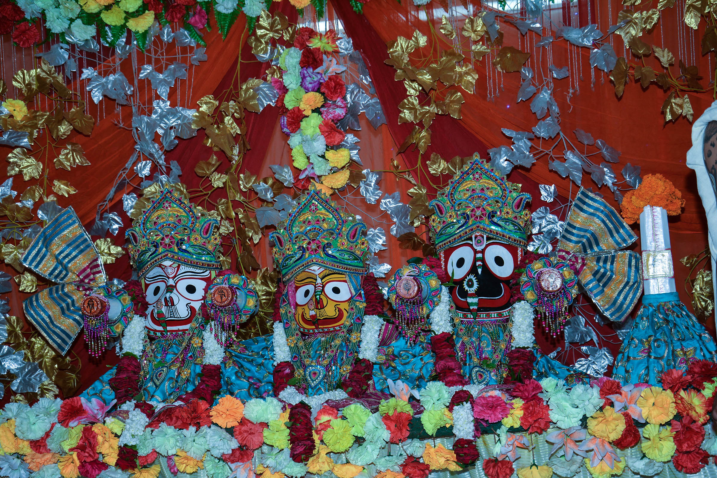 Lord Jagannath with His Sister Subhadra and with elder Brother Balbhadra (Balram)